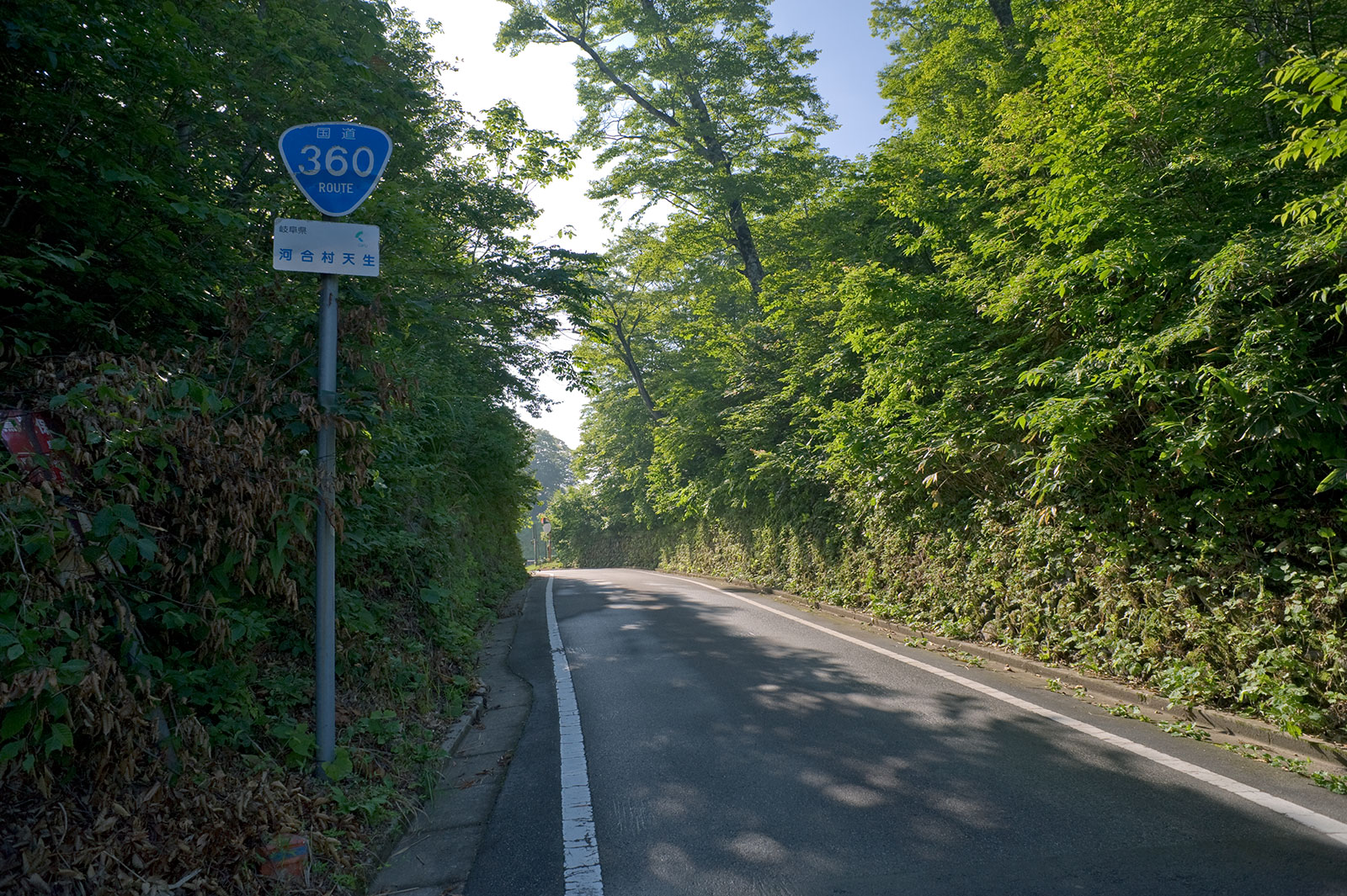 Japanese National Route 360 Amoutouge pass